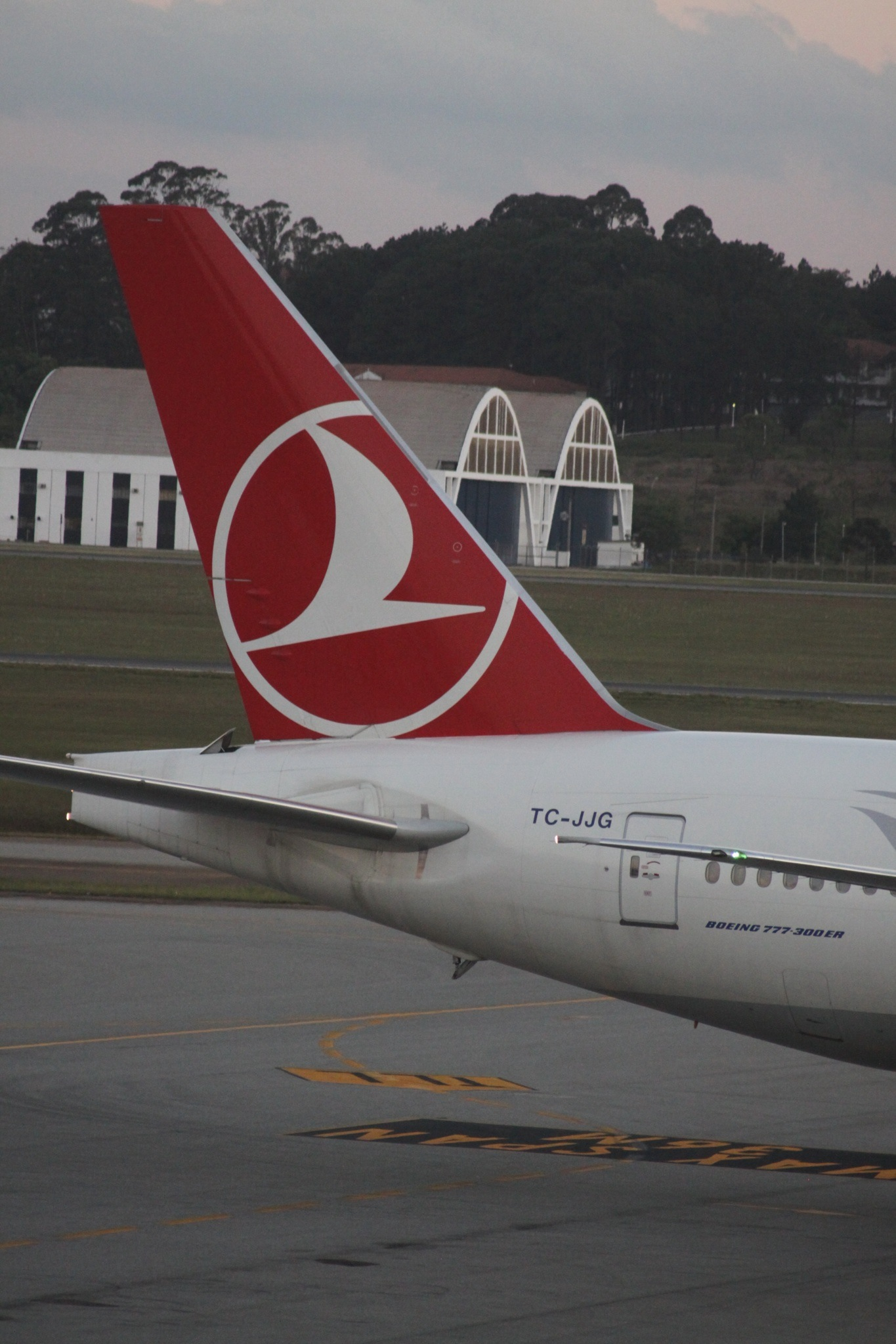 At Sao Paulo Guarulhos